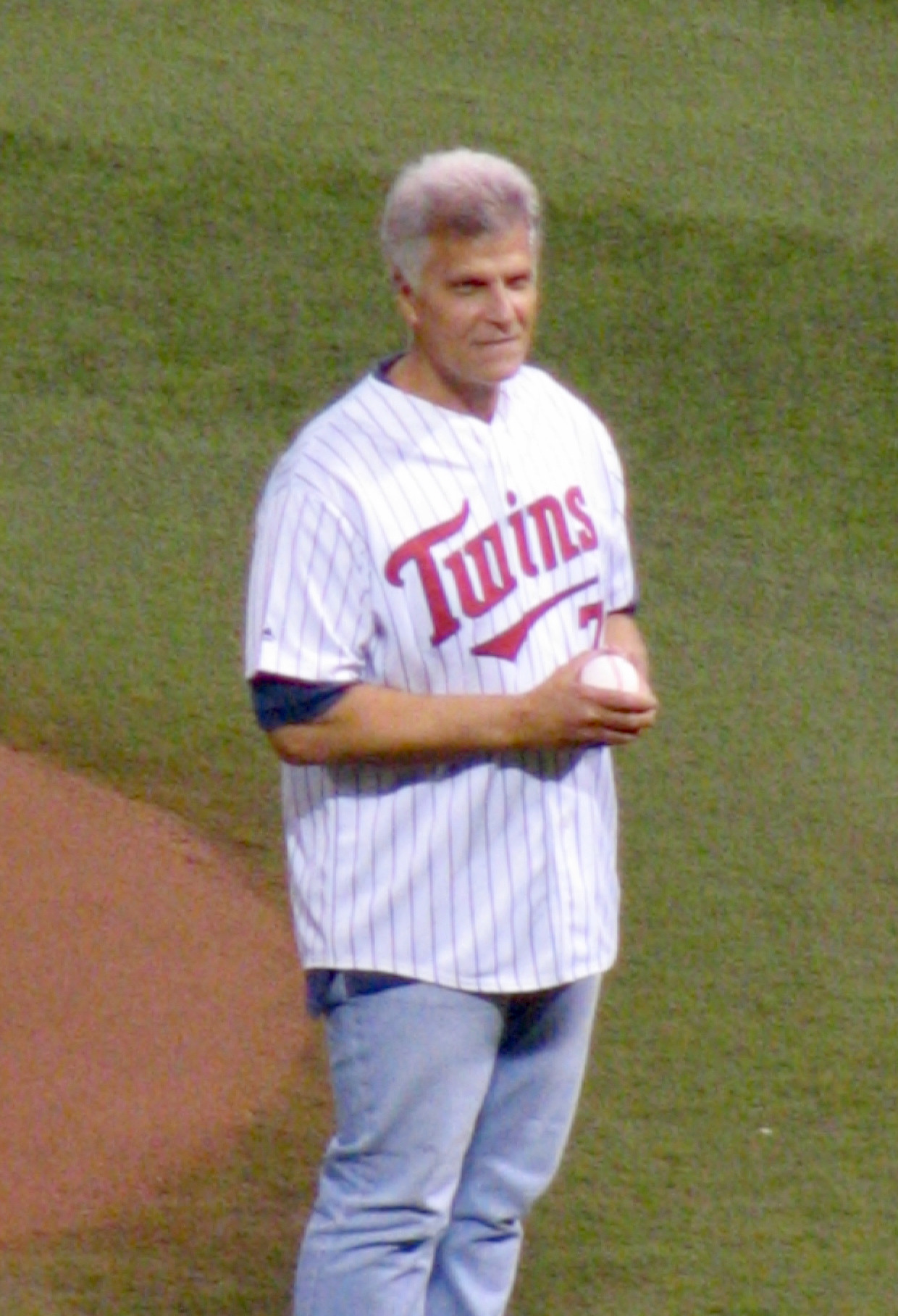 Former Olympic swimmer Mark Spitz throws out the first pitch in Minneapolis, Minnesota.